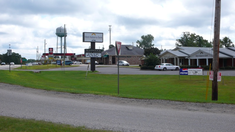 Businesses in Woodstock, Alabama